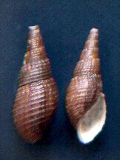 Shells of Tarebia granifera, synonym: Thiara granifera.